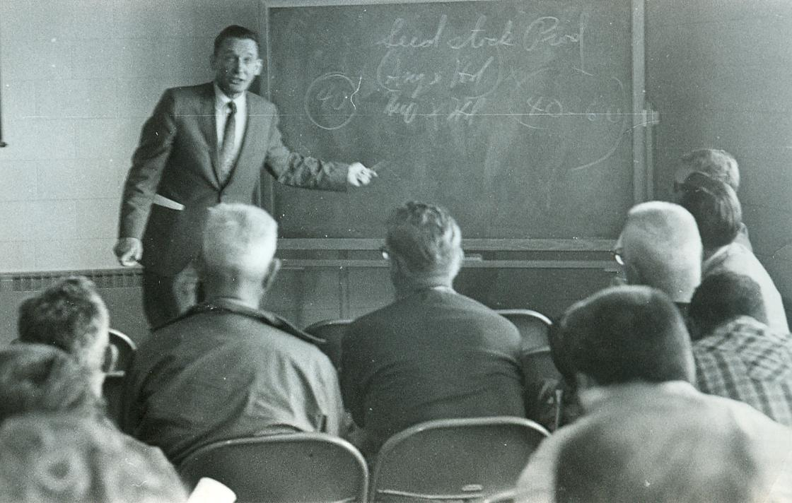 Edward Hauser, University of Wisconsin (1916-2014)